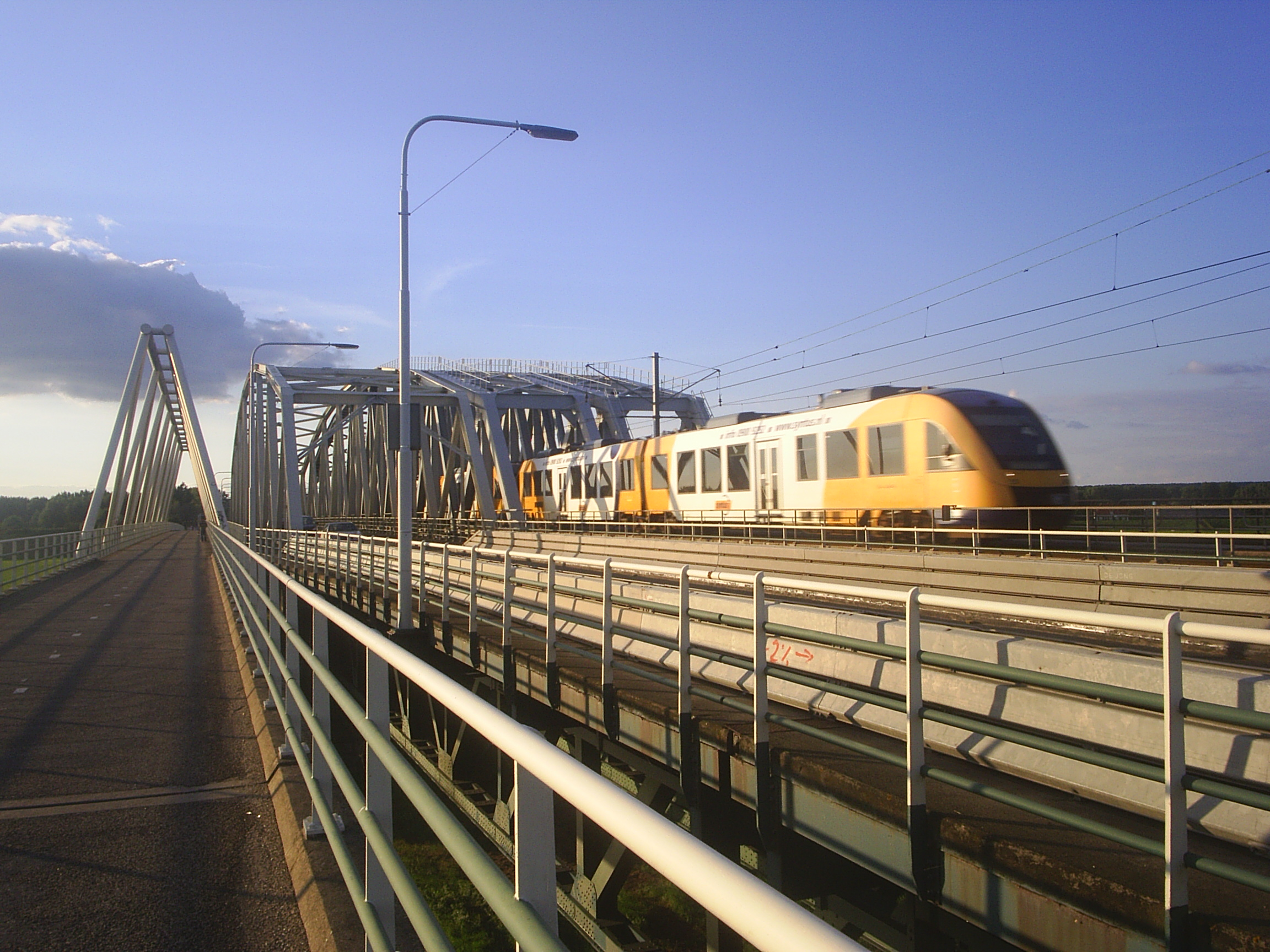 Bridge of Westervoort, the Netherlands